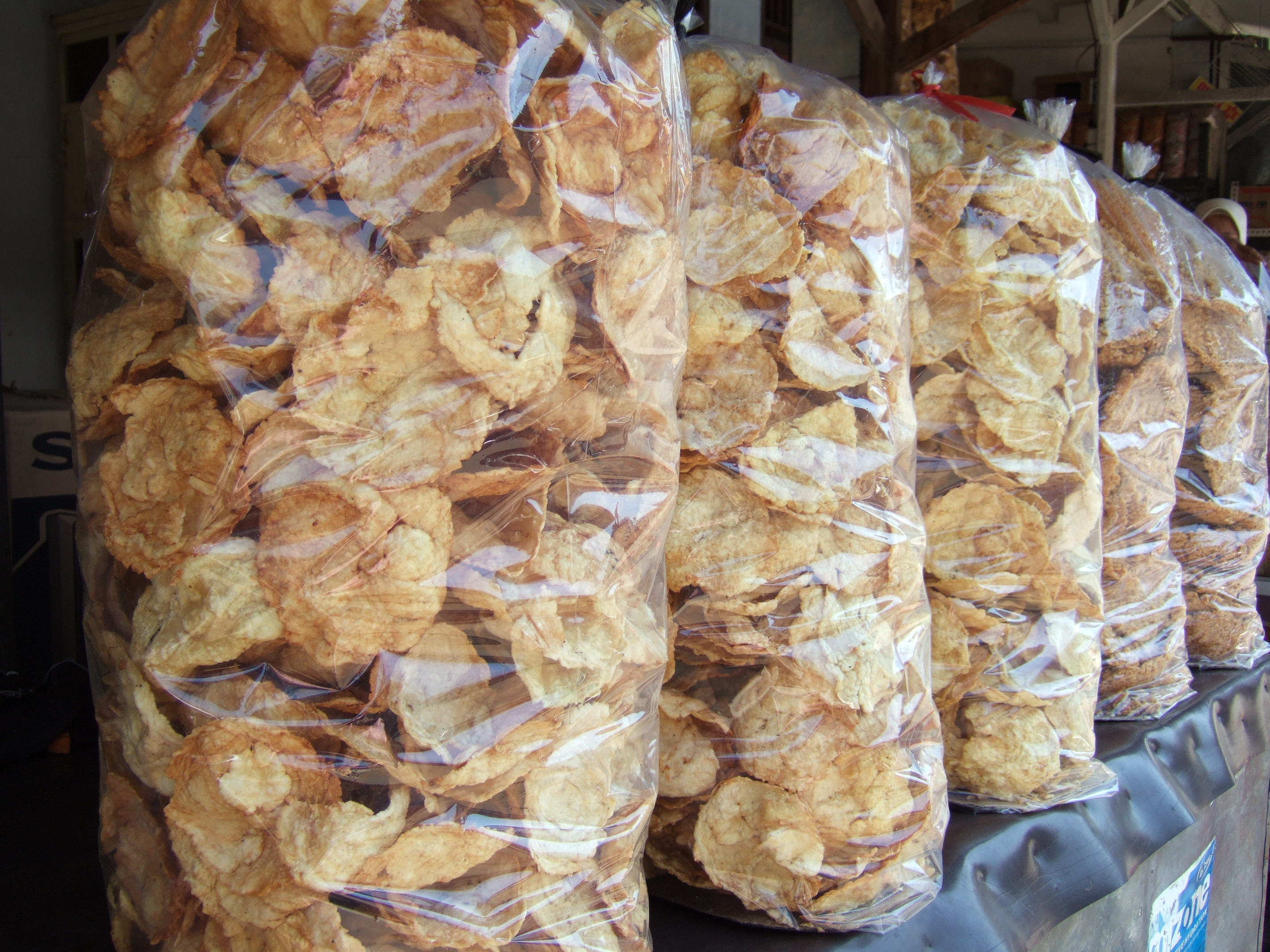 Indonesian crackers Emping (chips size). Wholesale at Jl. Raya Gunung Djati, Cirebon, Indonesia